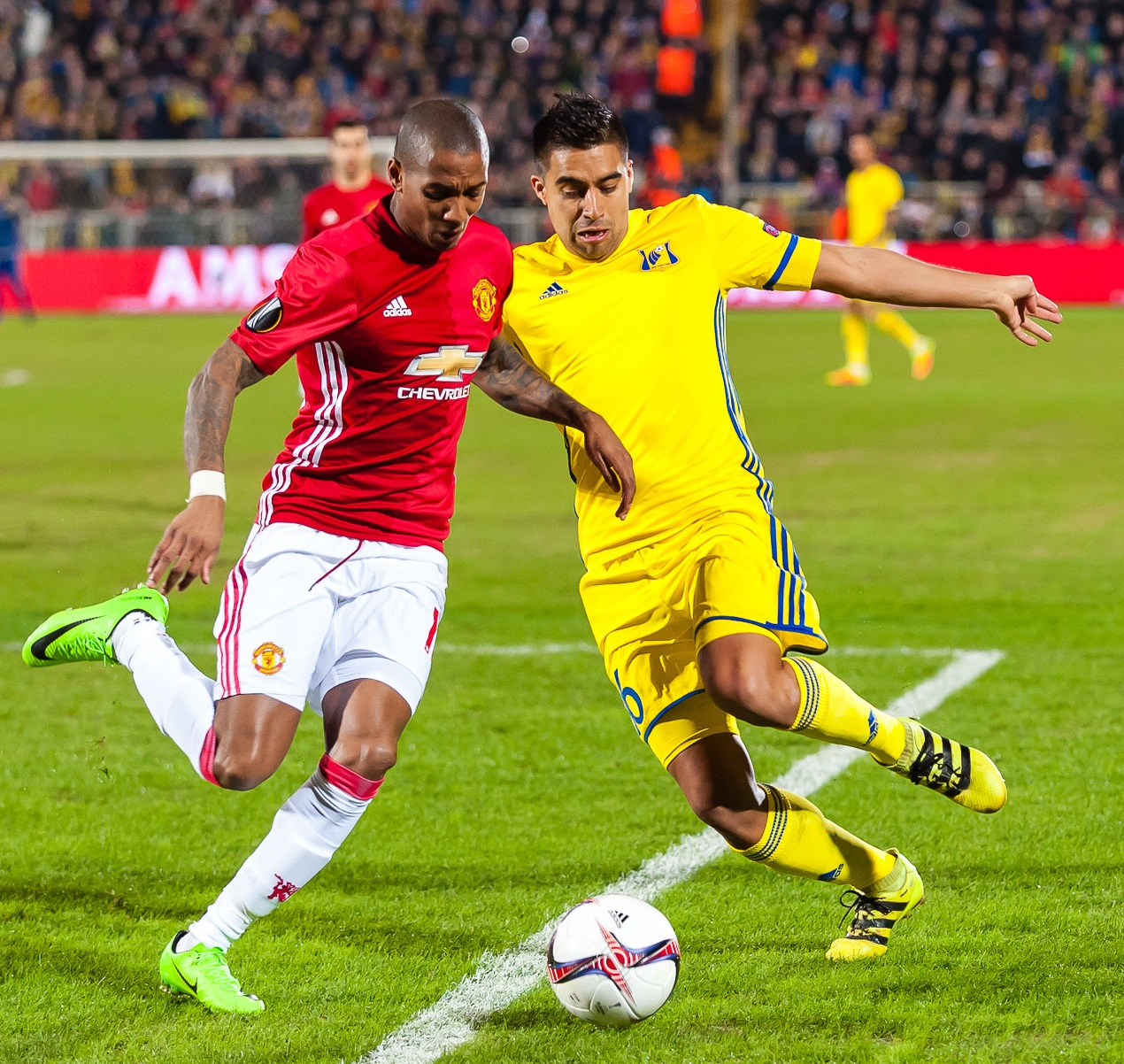 Manchester United footballer Ashley Young in 2017 UEFA Europa league match in Rostov, Russia.